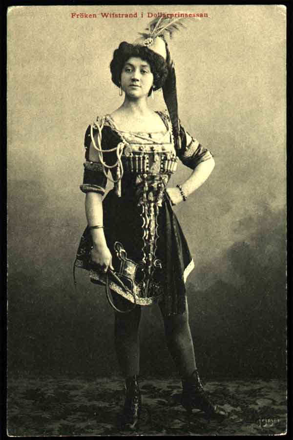 "Fröken Wifstrand i Dollarprinsessan"